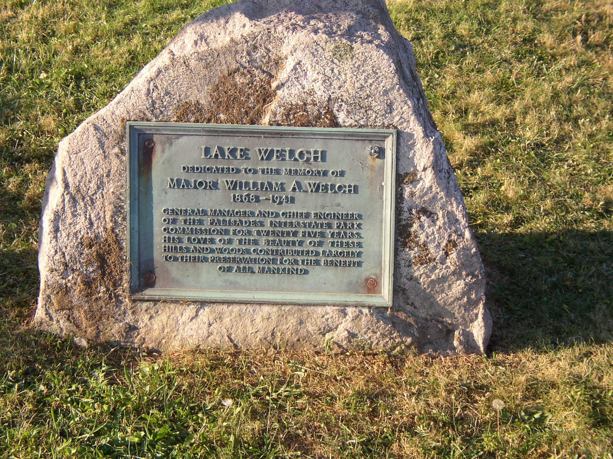 Memorial plaque for William Addams Welch, the name giver of Lake Welch